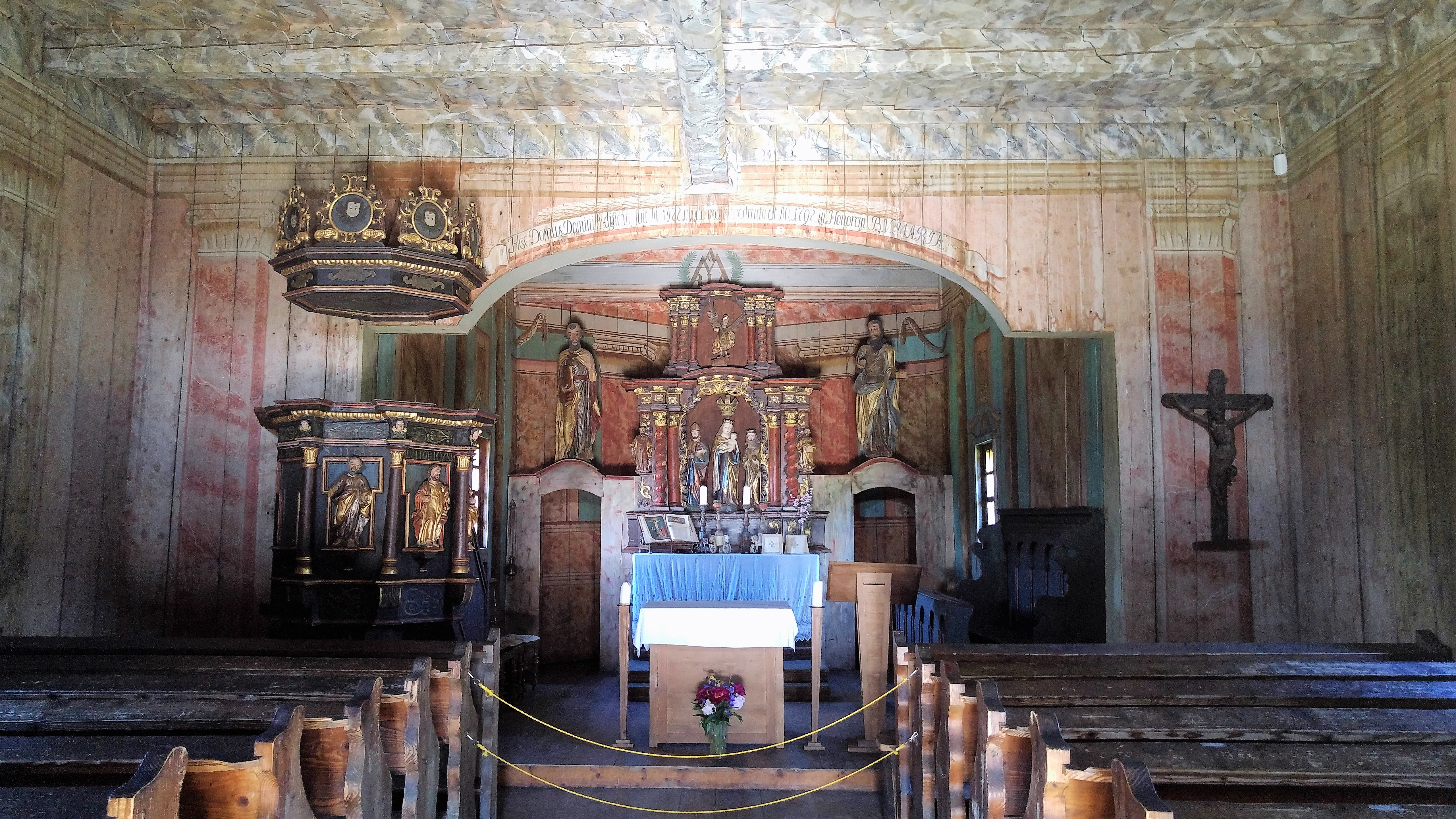 Interior of the 18th c.church moved from Rudno in open air museum - Martin, Slovakia.